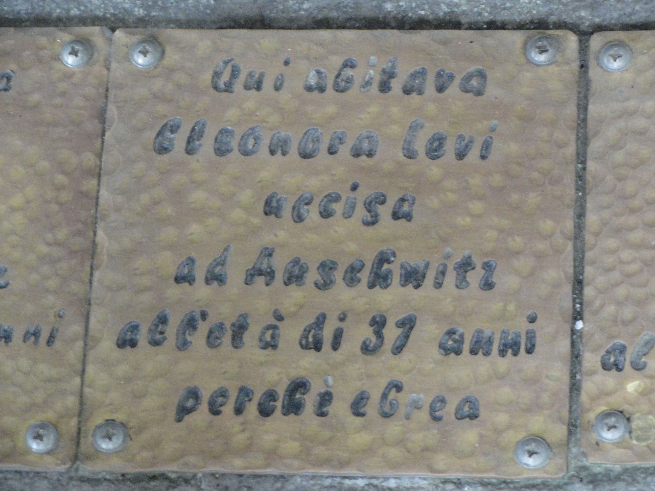 Stolpersteine like plaque in memory of a Jew killed by the nazis during WWII